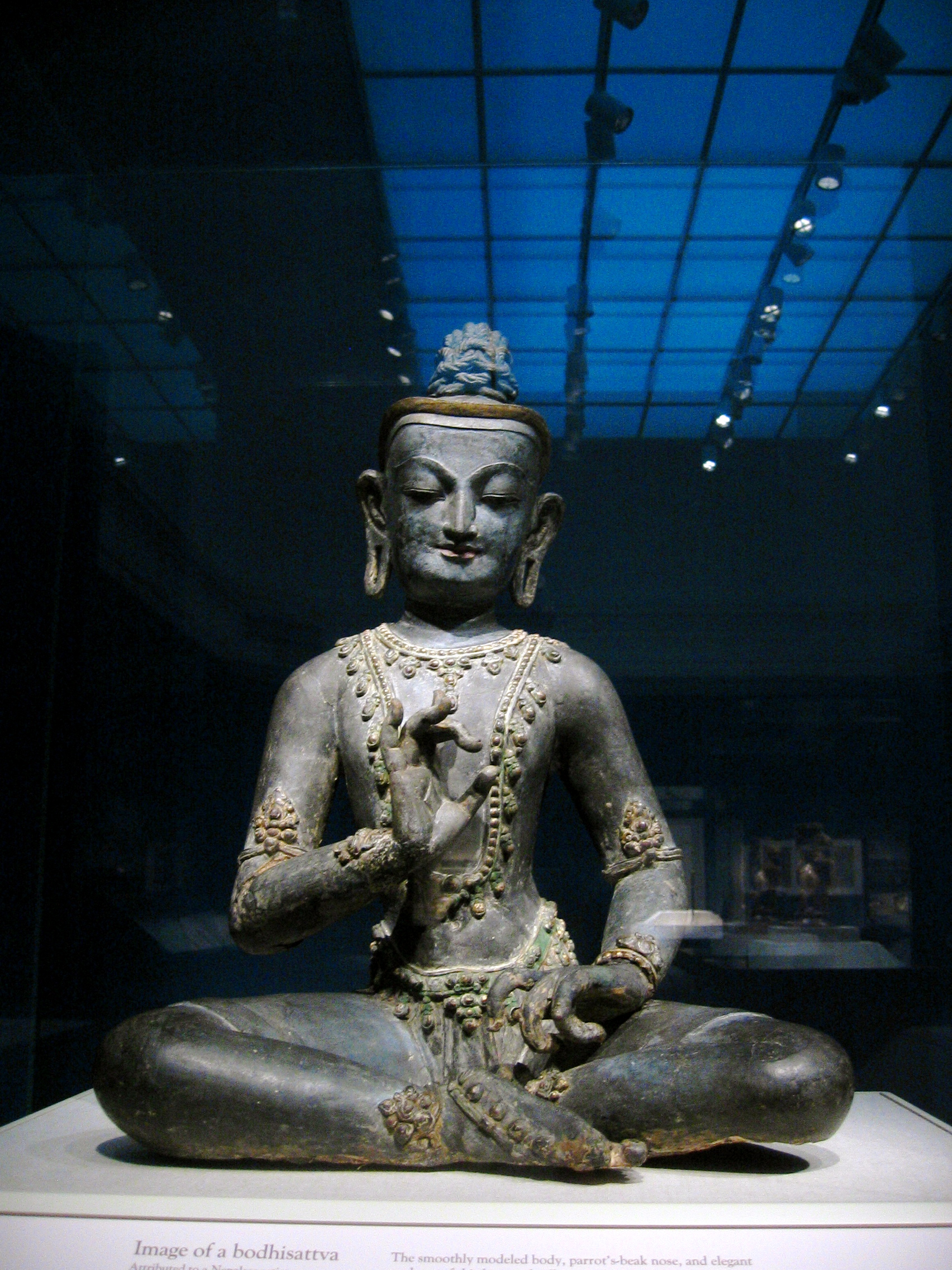 NEPALESE-CHINESE-STYLE BODHISATTVA. Lacquer, cloth, traces of blue, gold, and green paint, and gold leaf H: 58.5 W: 43.3 D: 29.5 cm. 13th century, Yuan dynasty, China. Purchase, F1945.4 Although made in China, the style of this bodhisattva (enlightened being) is decidedly Nepalese. This influence reflects the cosmopolitan nature of the Yuan dynasty court and its important foreign relations. The Nepalese artist, Anige, headed the Chinese imperial workshop at the time this bodhisattva was made. The technique used for this sculpture is called "dry lacquer." The basic process is to arrange several layers of lacquer-impregnated cloth over a rough clay core to form the sculpture and with a pastelike lacquer mixture, the finer details can be carefully modeled. Thin iron rods were inserted inside the figure to help support fragile parts. When the figure was finished and the lacquer dry, the clay core was removed from the inside. The resulting sculpture is thus extremely light weight. This image was once painted and gilded, but only traces of the original color remain. Freer Gallery of Art. Washington, DC.